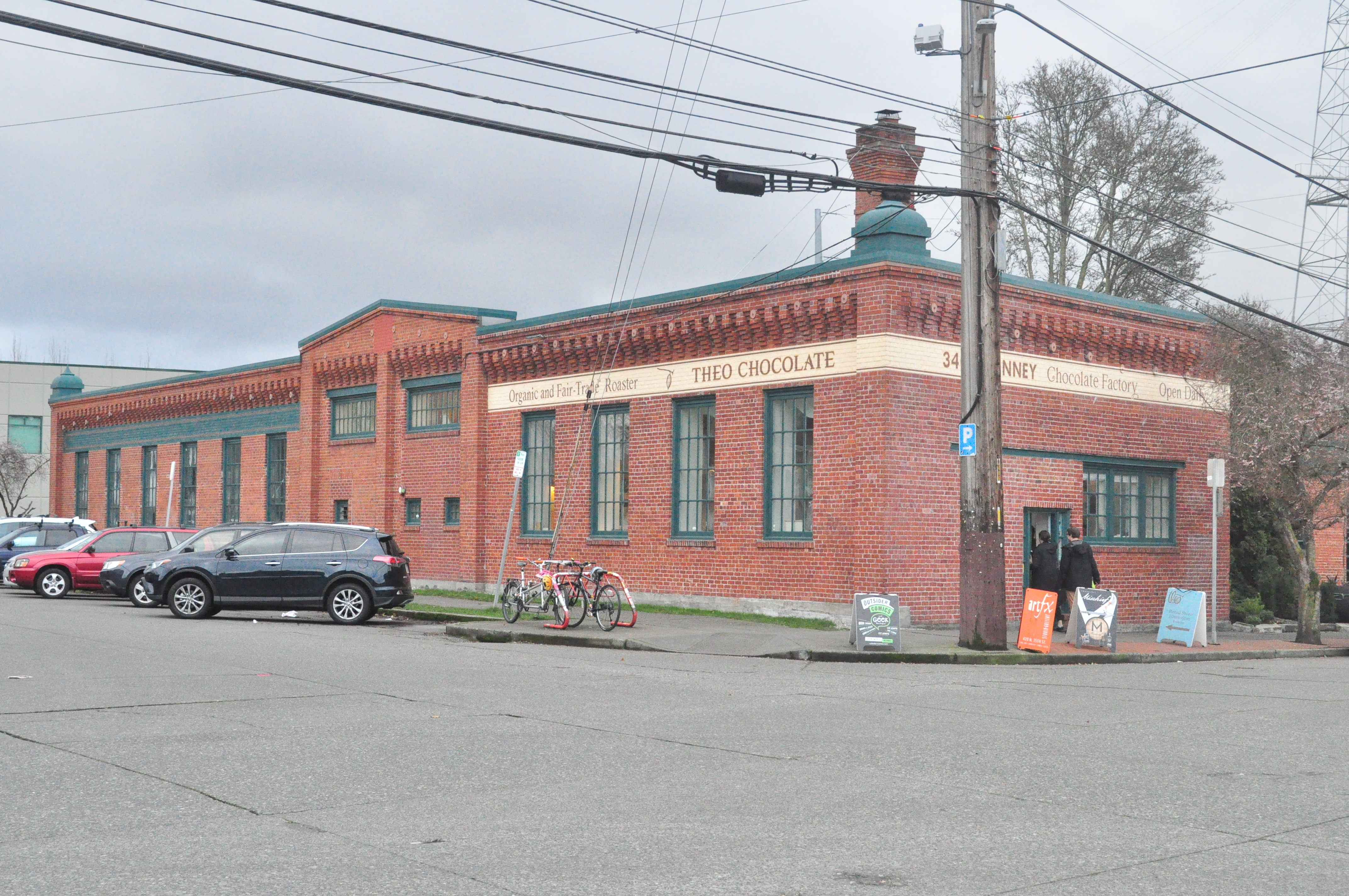 This 1905 building in Fremont, Seattle, Washington was originally (1905–1941) a trolley barn. From the 1940s to the 1980s, it contained Seattle Disposal's offices, storage, and a facility to repair garbage trucks. In 1983–4, Pacific Rim Export used the building for offices and a warehouse. 1988–2000 it was the Redhook Brewery (later relocated to a larger custom-built facility Woodinville, Washington); from 2004 it has contained, among other things, the Theo chocolate factory. (Most of this can be verified at [1]). The building is a Seattle landmark. Theo Chocolate retail shop and part of the factory, seen from the northwest.